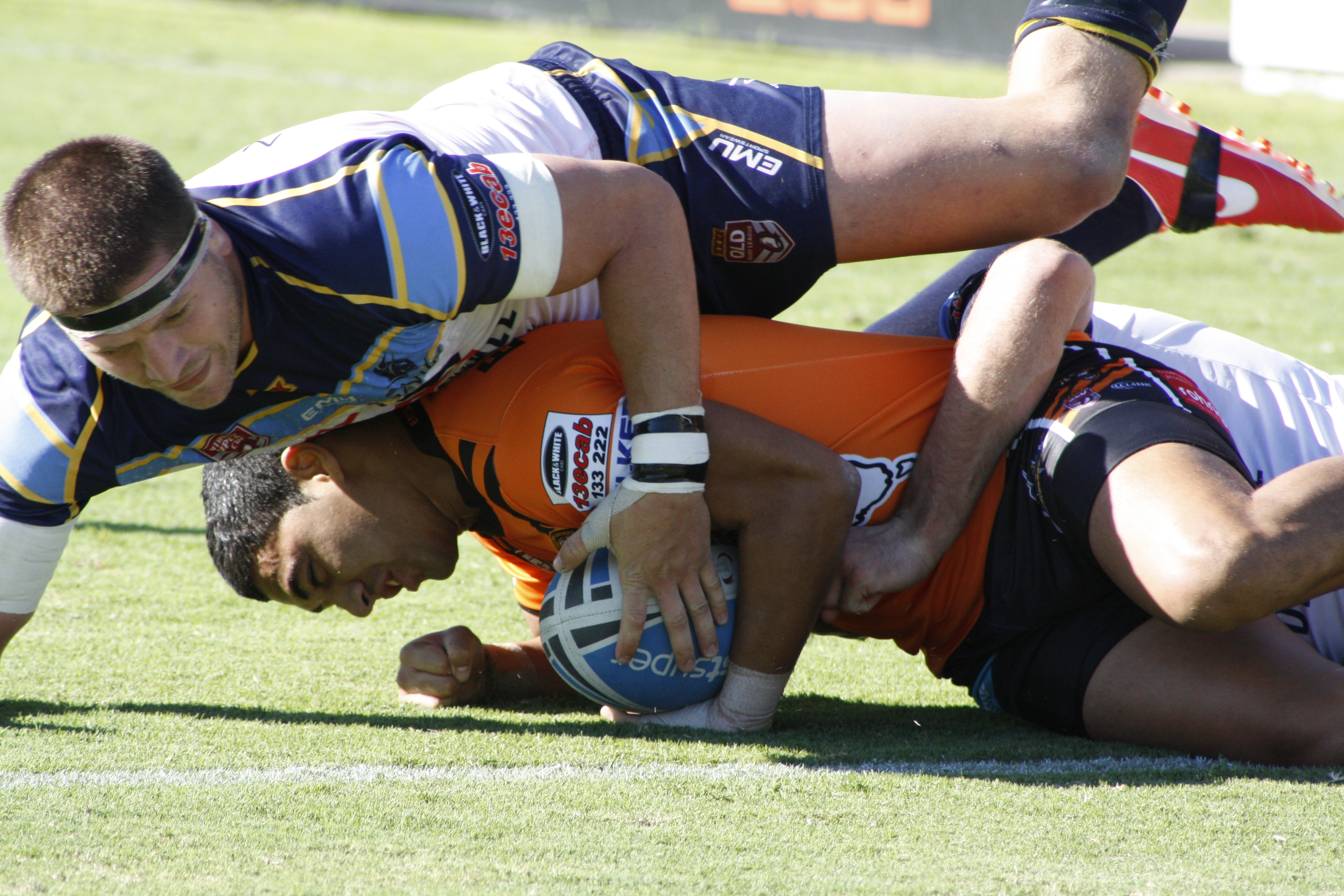 Queensland Rugby League Intrust Super Cup. Easts Tigers versus Burleigh Bears at Langlands Park, Brisbane Australia. May 4, 2014.